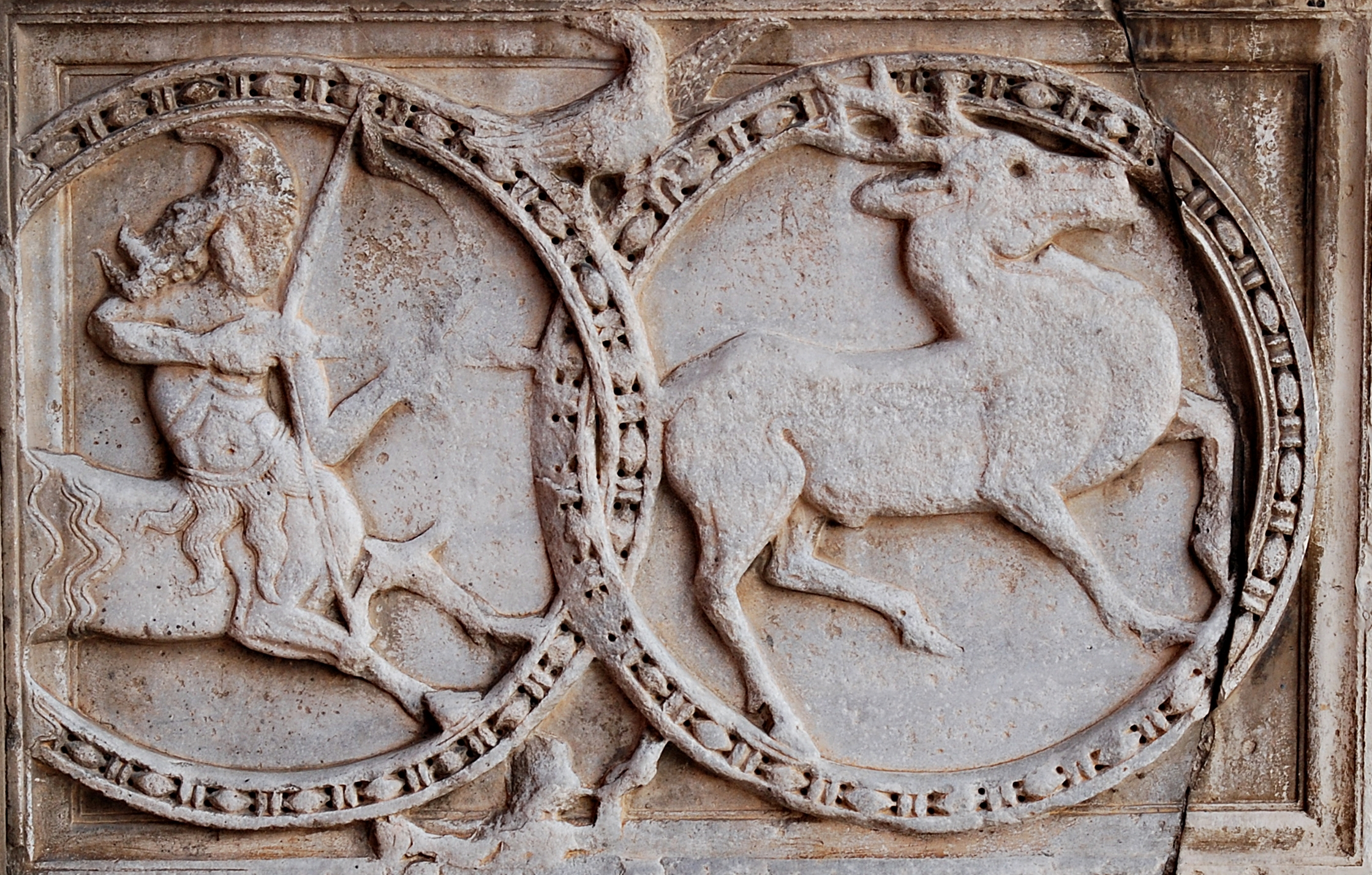 Detail of portal, Saint-Gilles-du-Gard